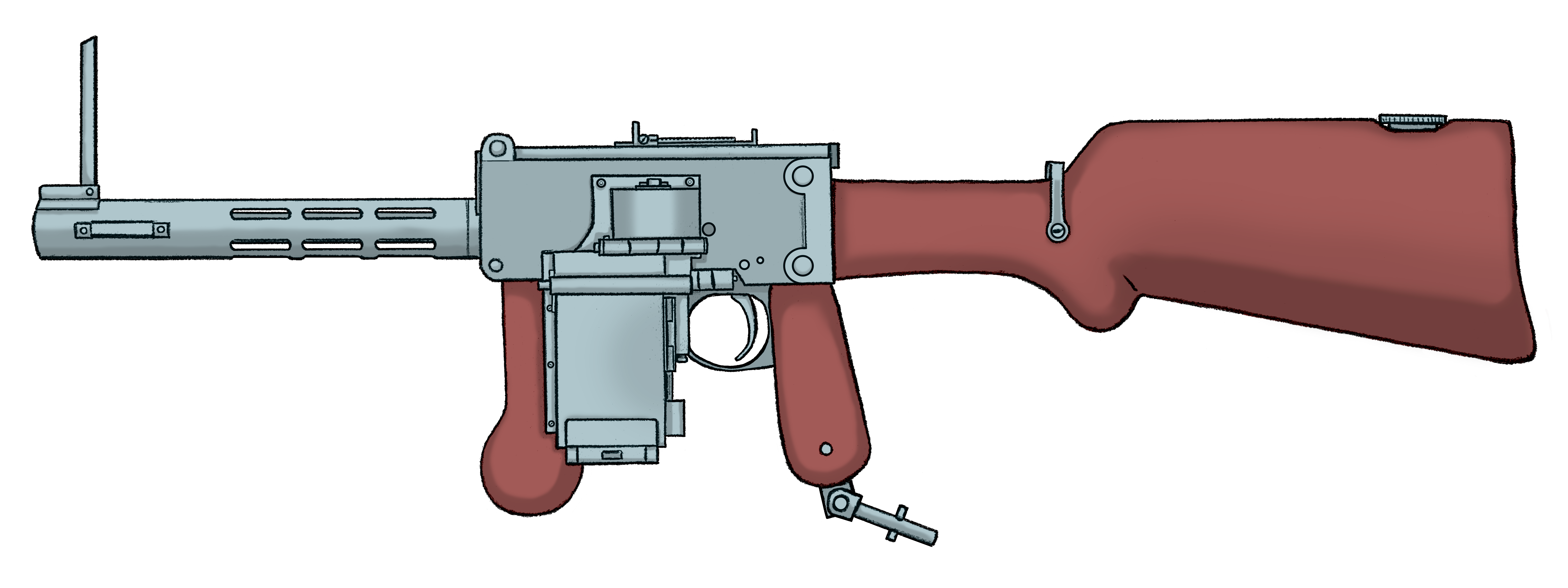 Experimental German submachine gun based on the MG 08/18